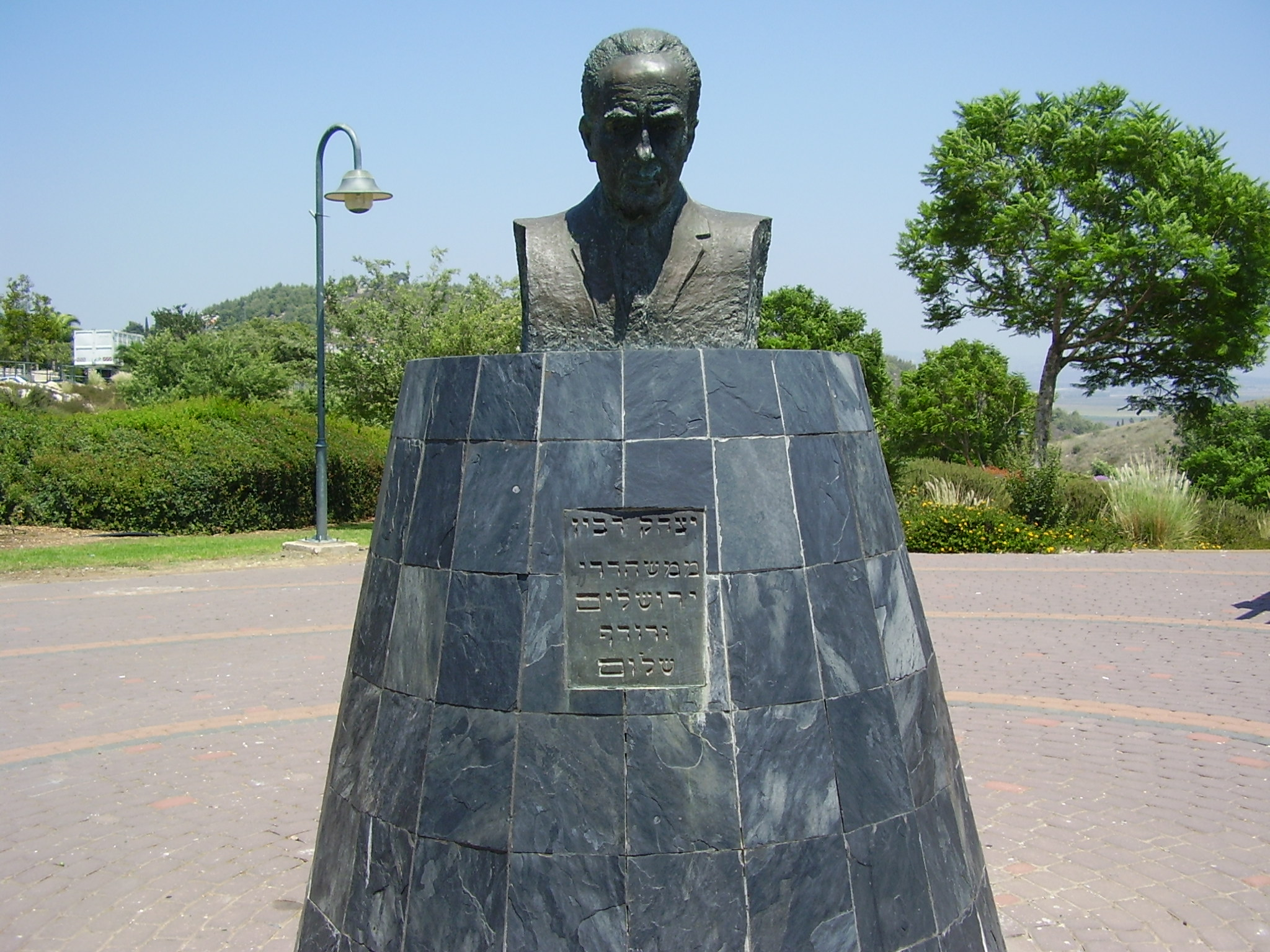 Yitzhak Rabin memorial in Yokneam